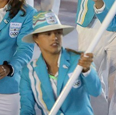 Aruba athletes at the 2016 Summer Olympics